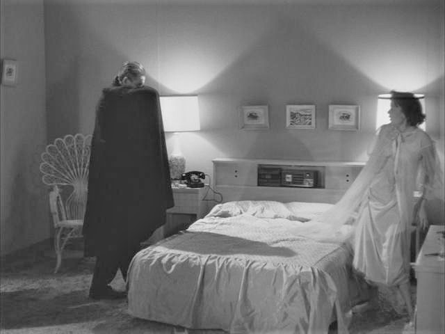 Film: Plan 9 from Outer Space (1959) Director: Ed Wood, Jr. Actors Portrayed: Tom Mason and Mona McKinnon The original 1959 version of this film is public domain, although there may be a copyright on the musical score